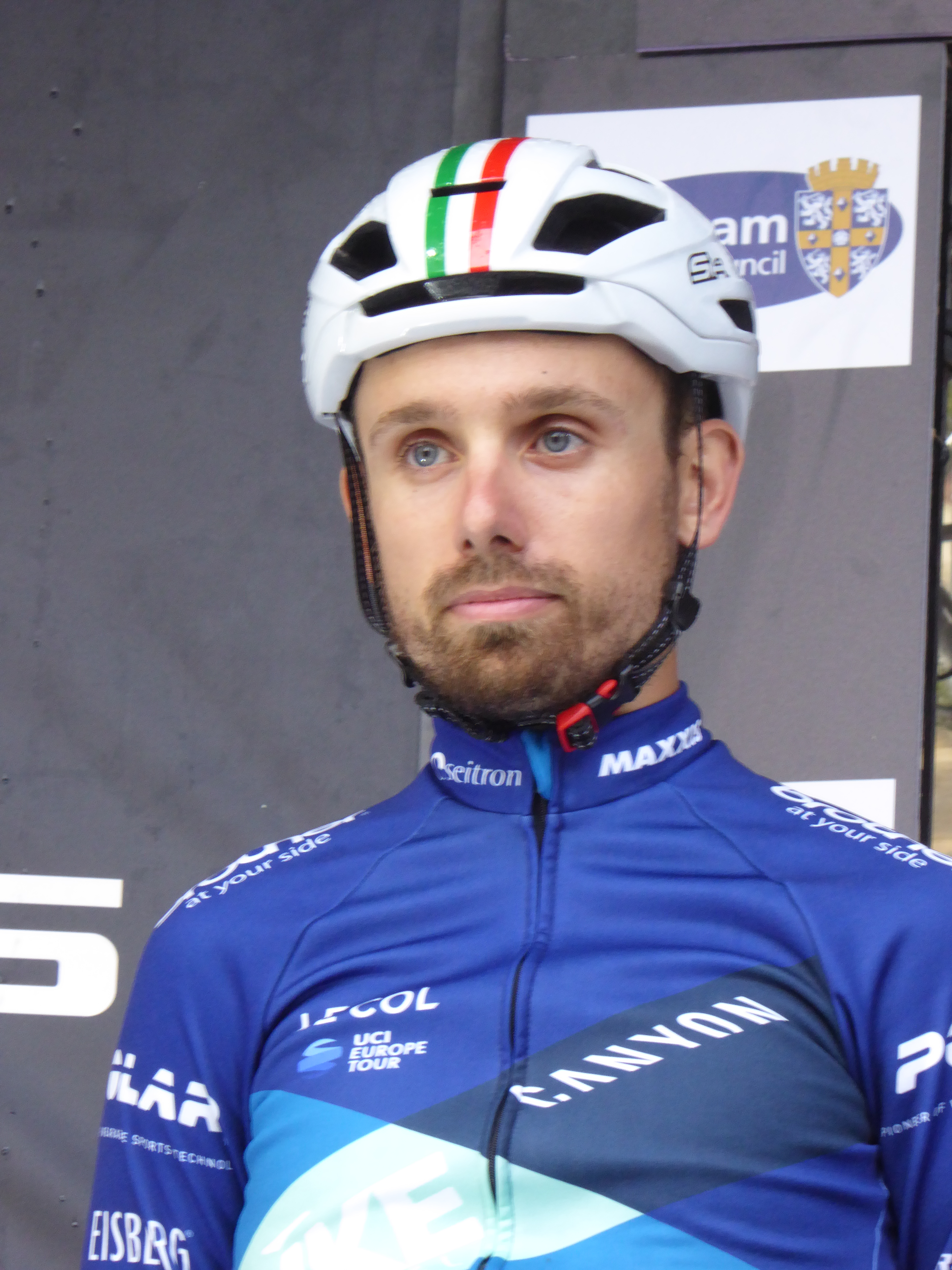 Jack Pullar (Bike Channel-Canyon), prior to Round 9 of the Tour Series in Durham, on 27 May 2017.